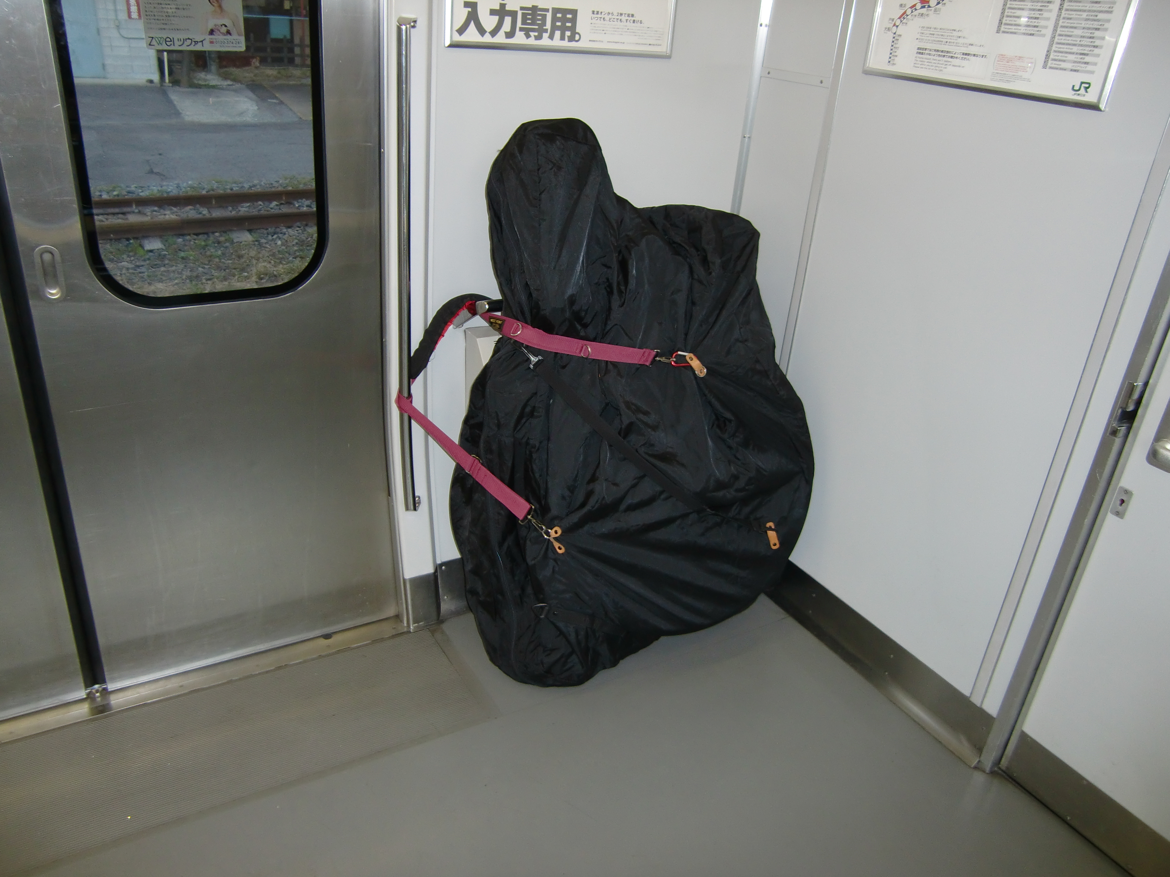 Bicycle Case